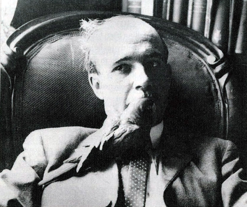 Rare photo of a live Carolina Parakeet named "Doodles", owned by Paul Bartsch, sitting on Mr. Bryan.